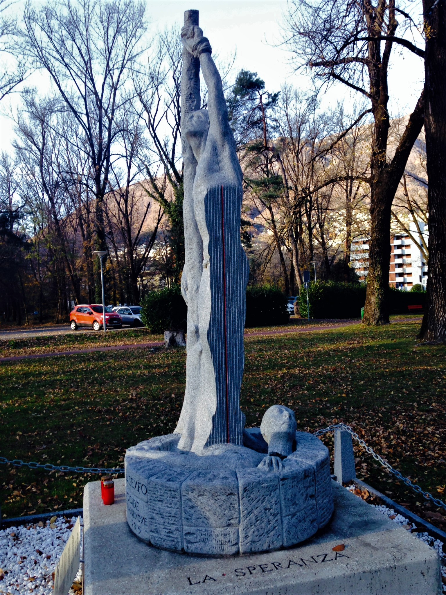 Memorial for the victims of the Assyrian-Suryoye genocide "Seyfo" in 1915. It is placed in a Peace Park (Parco della Pace).